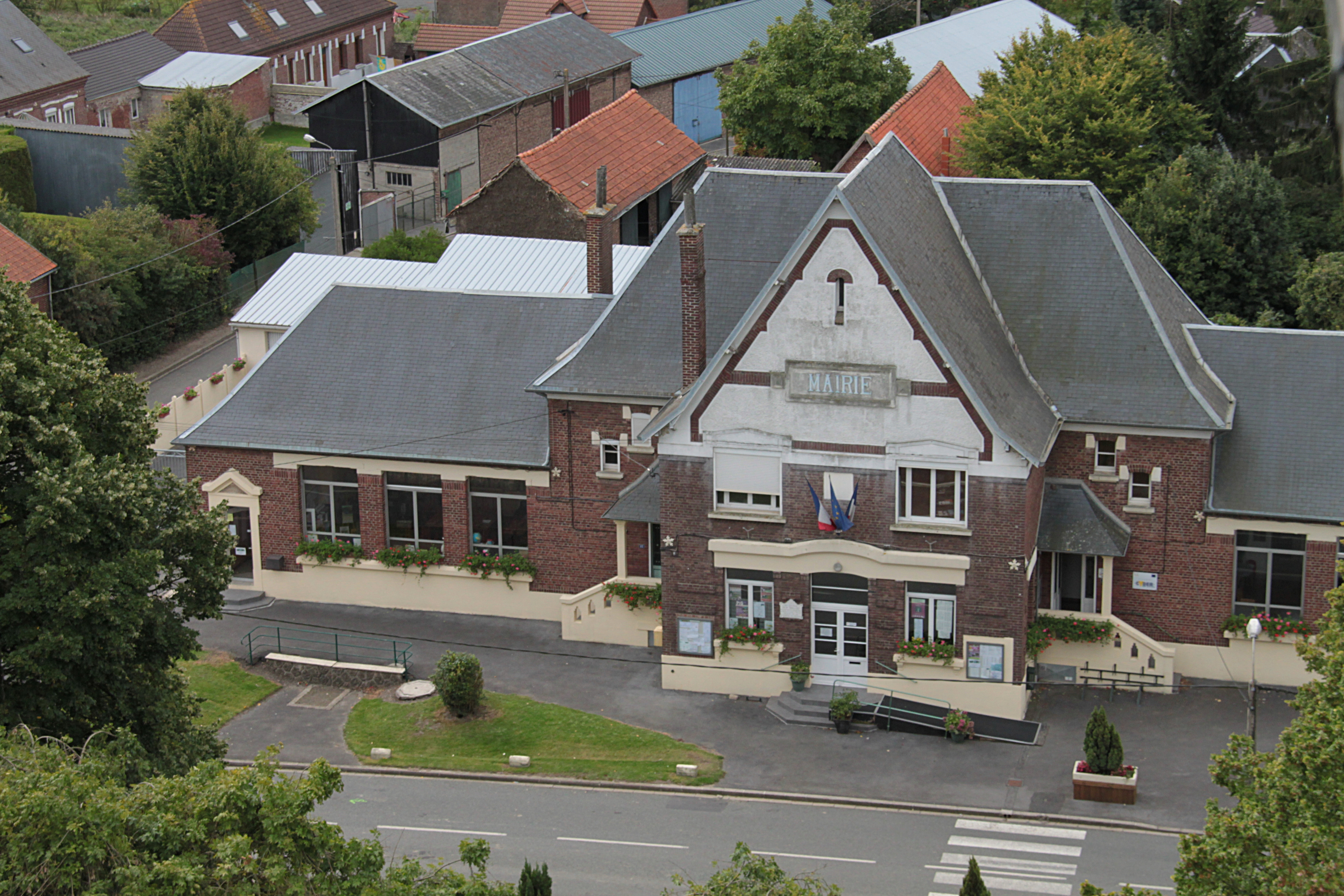 Townhall and primary school from the bell tower of the church.